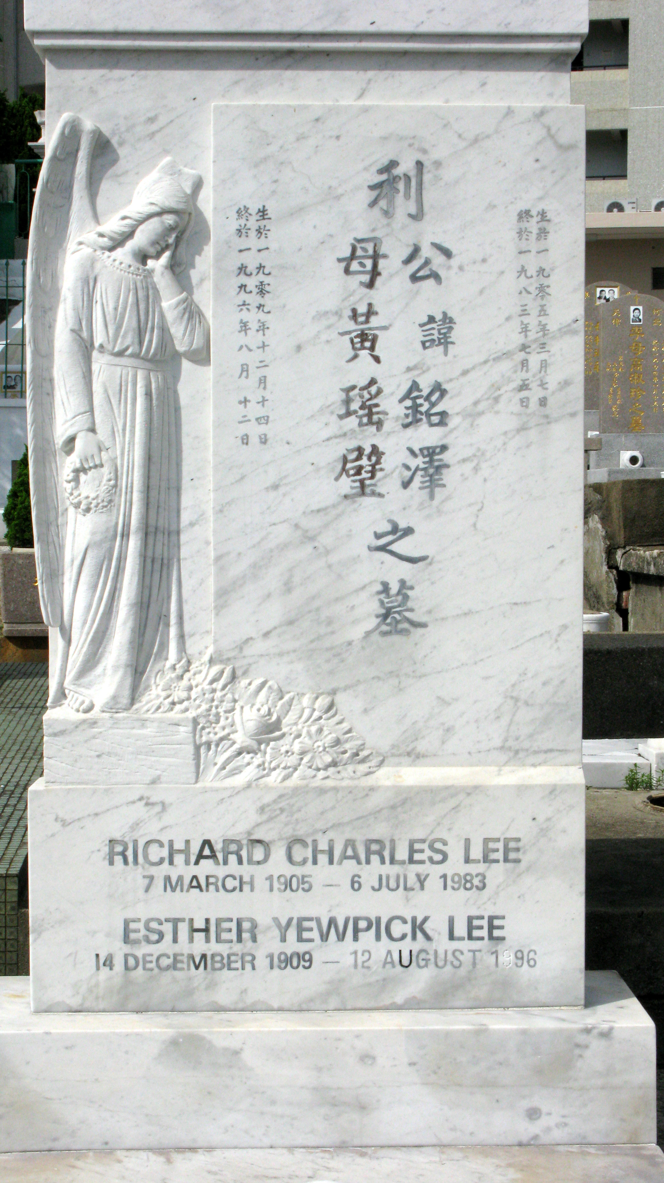 Tomb of Richard Charles Lee and Esther Yewpick Lee, Pok Fu Lam Cemetery, Hong Kong Island